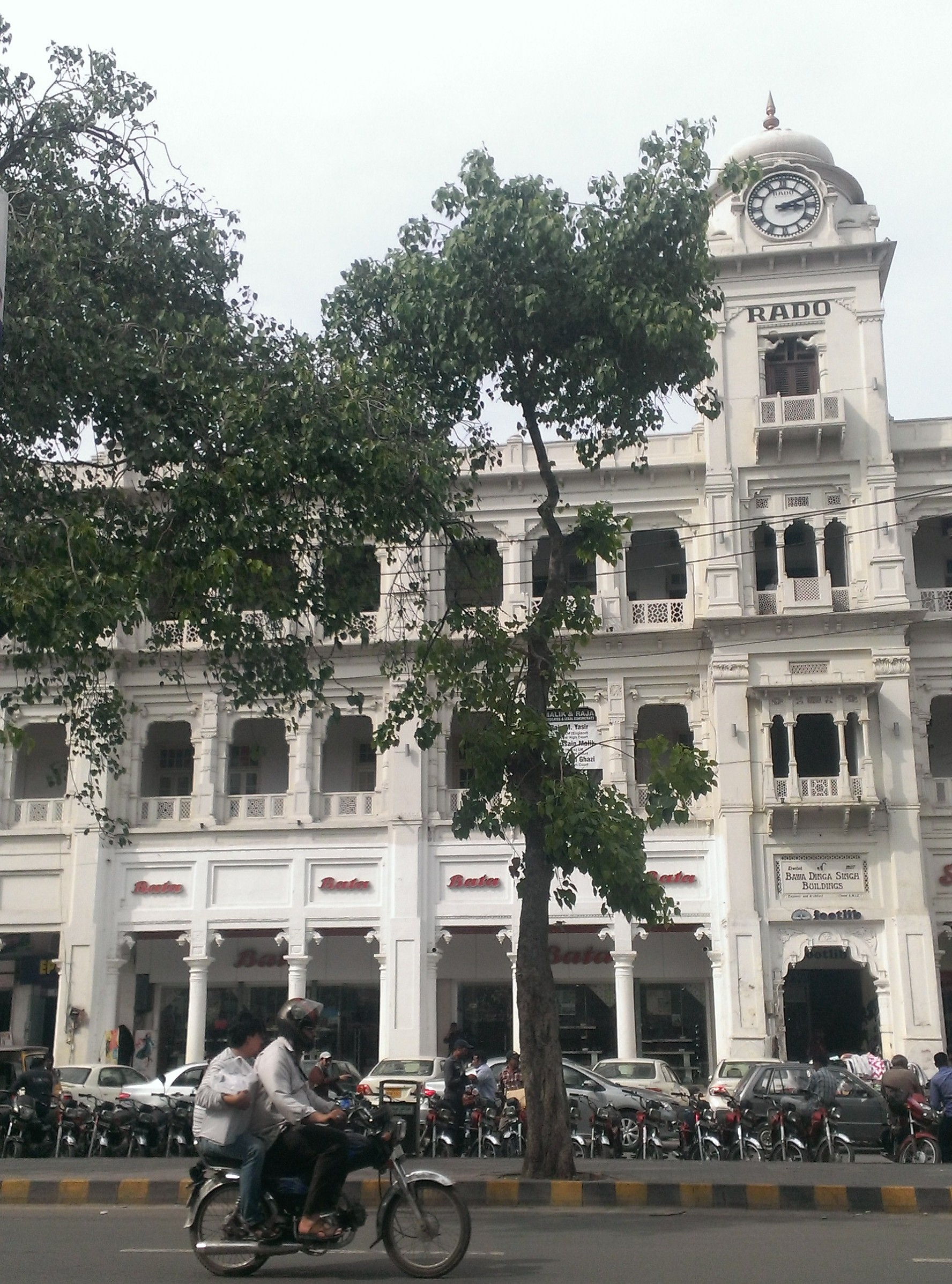 Bawa Dinga Singh Building, Lahore.